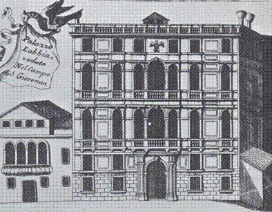 Palazzo Labia, Venice. Scan of 18th century print. Unsigned. Property of uploader.